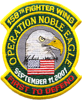 158th Fighter Wing - Operation Noble Eagle - 2001/2002